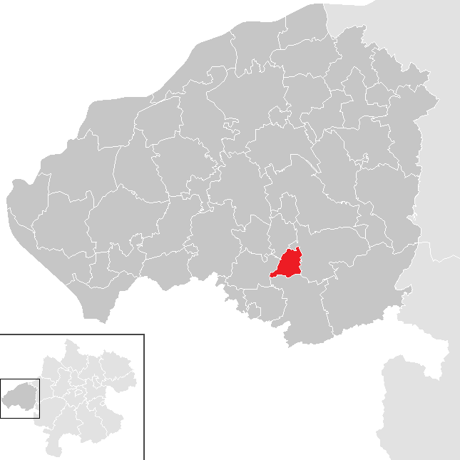 district Braunau am Inn